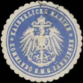 Sealing stamp Title: K. Marine Kommando S.M.S. Zähringen Description: Place: size: 4 cm